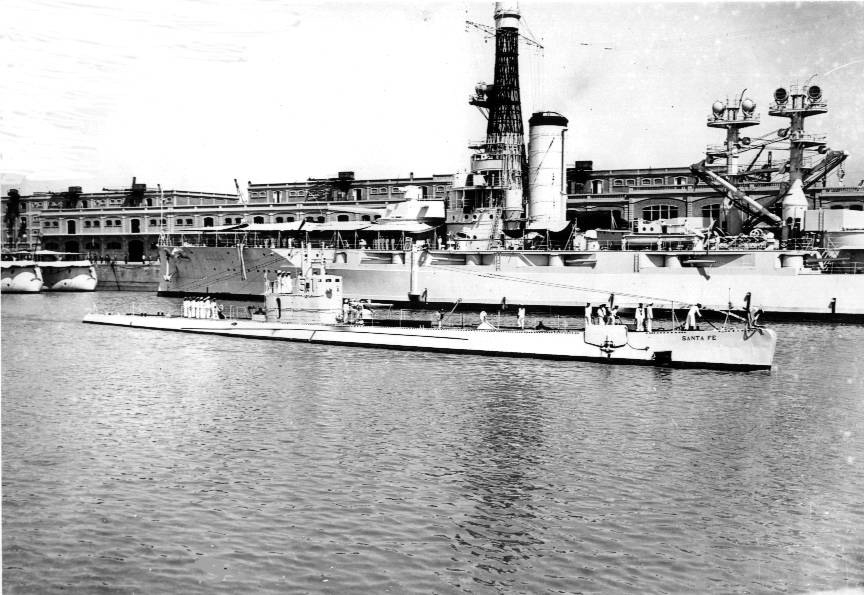 Argentine first submarine ARA Santa Fe (S-1) in Puerto Belgrano naval base